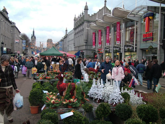 Continental Market in Union Street, Aberdeen. On one November weekend each year Union Street is closed to traffic between Market Street and Bridge Street to accommodate this market selling continetal produce. At other times of the year the international markets are usually held on at the Castlegate.